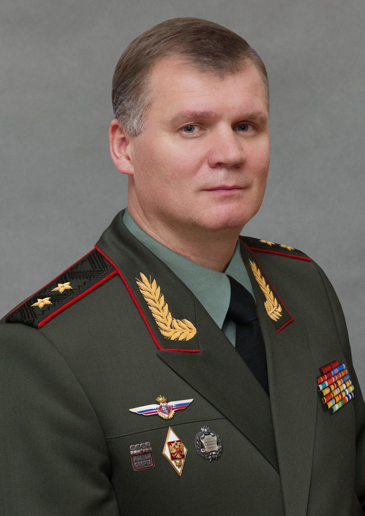 Maj. Gen. Igor Konashenkov (born 15 May 1966) is a spokesman for the Ministry of Defence of the Russian Federation.